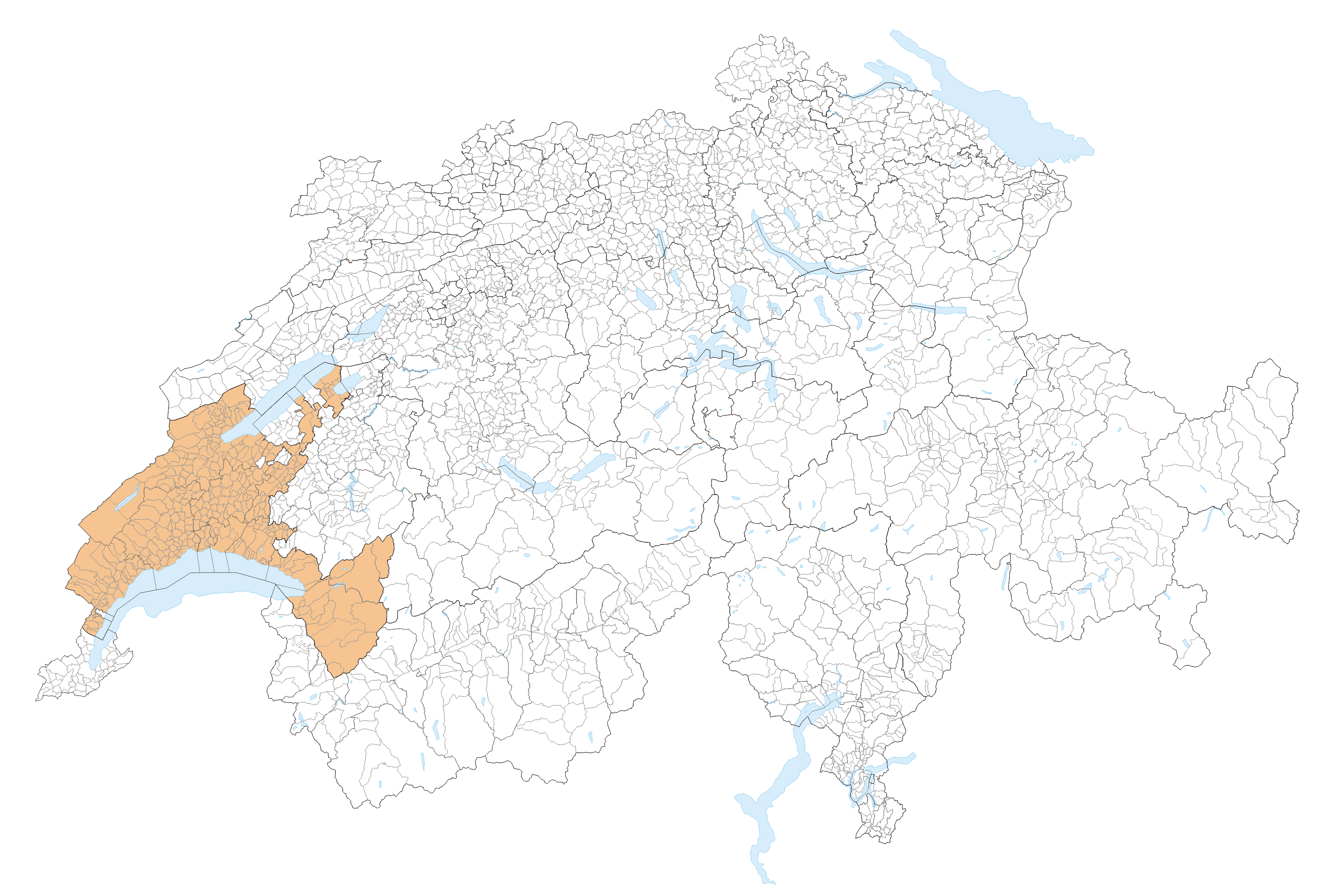 Kanton Waadt